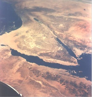 Near East area as seen from Gemini 11 spacecraft during its 26th revolution of the earth. The United Arab Republic (Egypt) is in foreground. Triangular-shaped area is the Sinai Peninsula. Saudi Arabia is at upper right. The Mediterranean Sea is at upper left. The Gulf of Suez separates Egypt from the Sinai Peninsula. The Red Sea is at bottom right. The Gulf of Aqaba is body of water in right center of photography separating the Sinai Peninsula and the Arabian Peninsula. The Dead Sea, Sea of Galilee, Jordan and Israel are in top center of picture. Iraq is at top right edge of photograph.